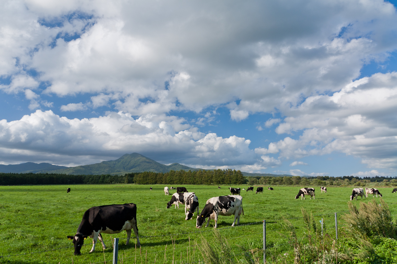 A view of Makashibetsu Town. Musadake (Mount Musa) as seen from the south.